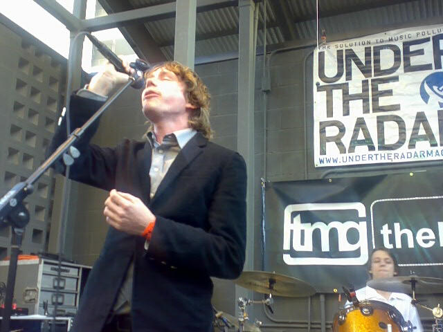 upload by fidg't